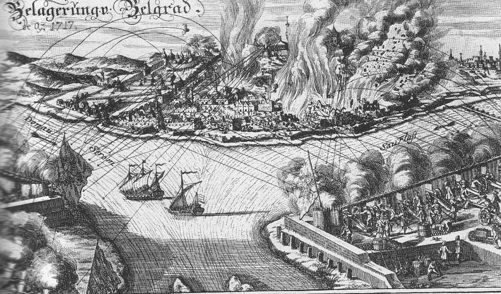 Siege of Belgrade, engraving, 1717